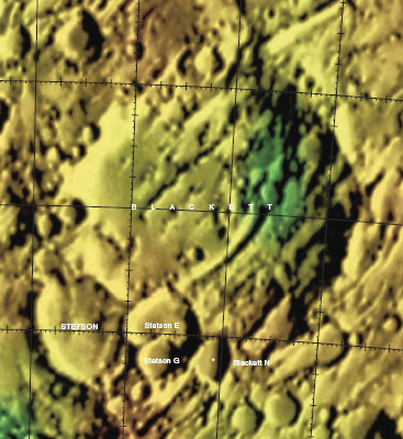 Color-coded LAC 122 from the USGS Digital Atlas.